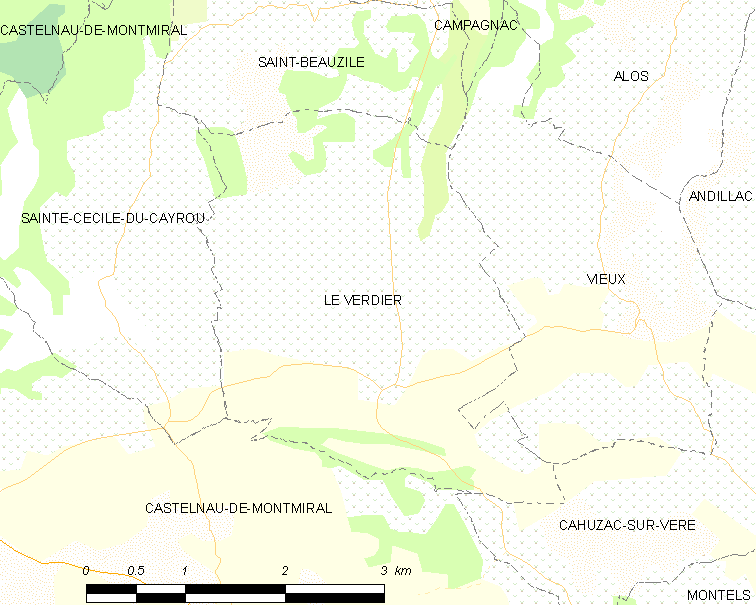 Map of French municipality Le Verdier